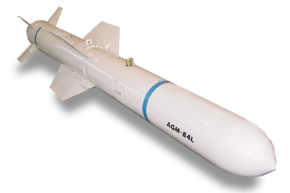 AGM-84L Harpoon on display